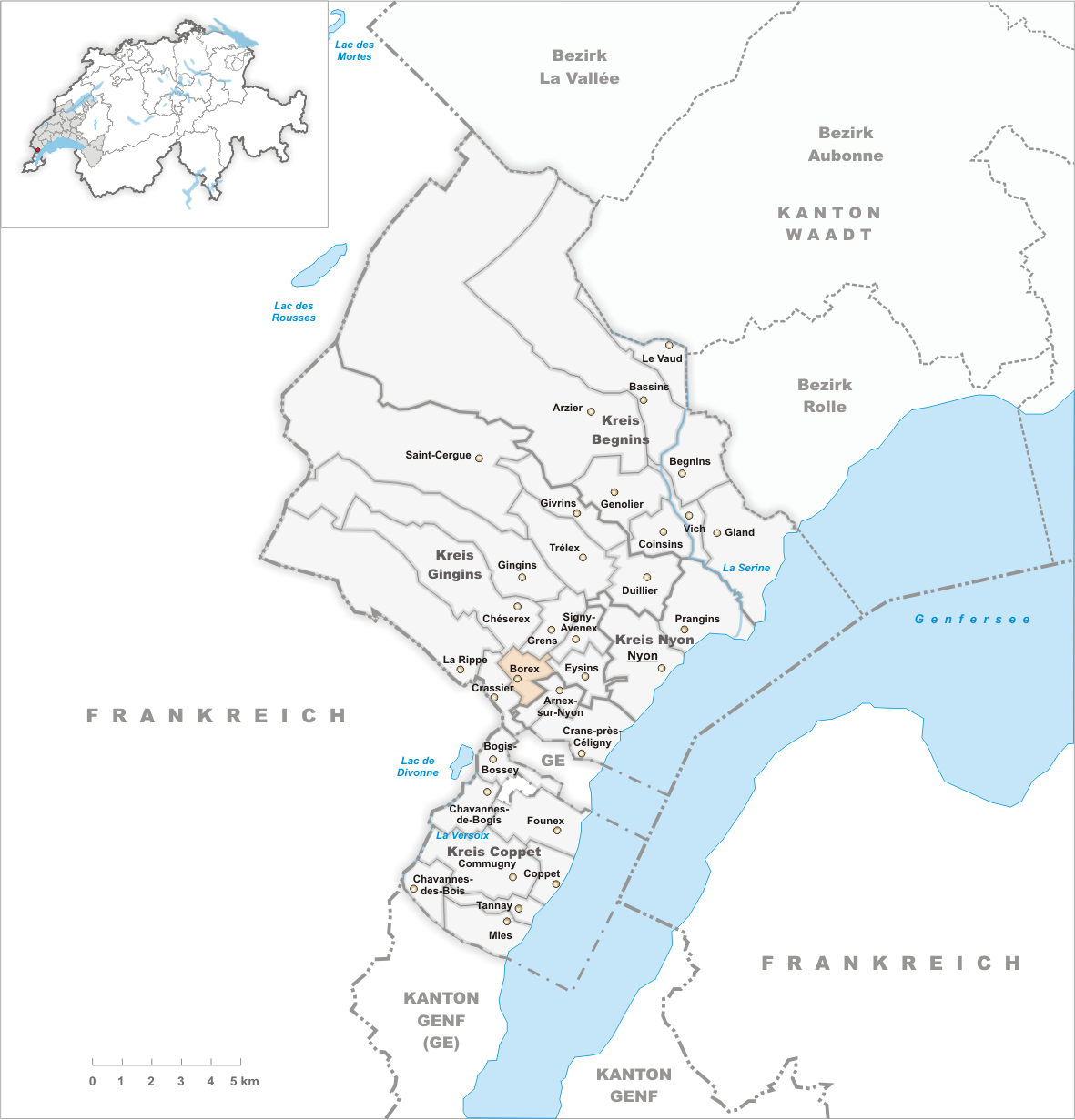 Municipality Borex